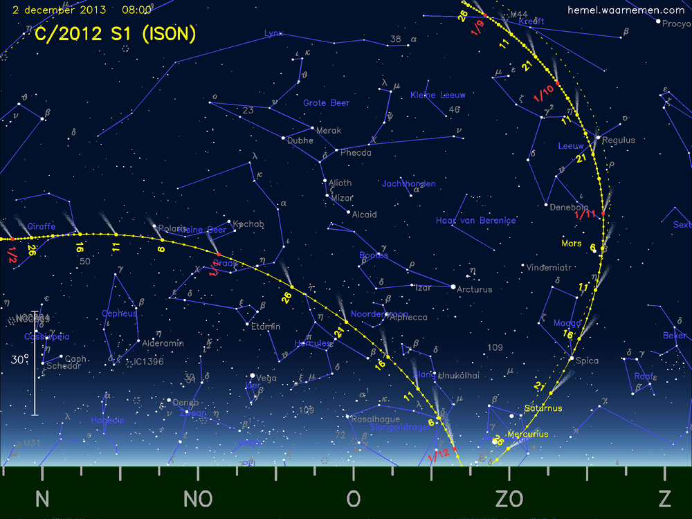 The comet C/2012 S1 (ISON) in the (roughly eastern) morning sky for an observer in the Netherlands or Belgium, between August 2013 and March 2014. The position of the comet with respect to the background stars is correct at all times. The horizon, twilight and the positions of the planets are (roughly) valid only for 2 Dec 2013, 8:00 CET, the time indicated in the map. The comet tails are schematic and give a rough indication of the orientation of the actual tail, but not of its actual length or appearance. The yellow labels show the day of month for which a comet is drawn, red ones the first day of a month.